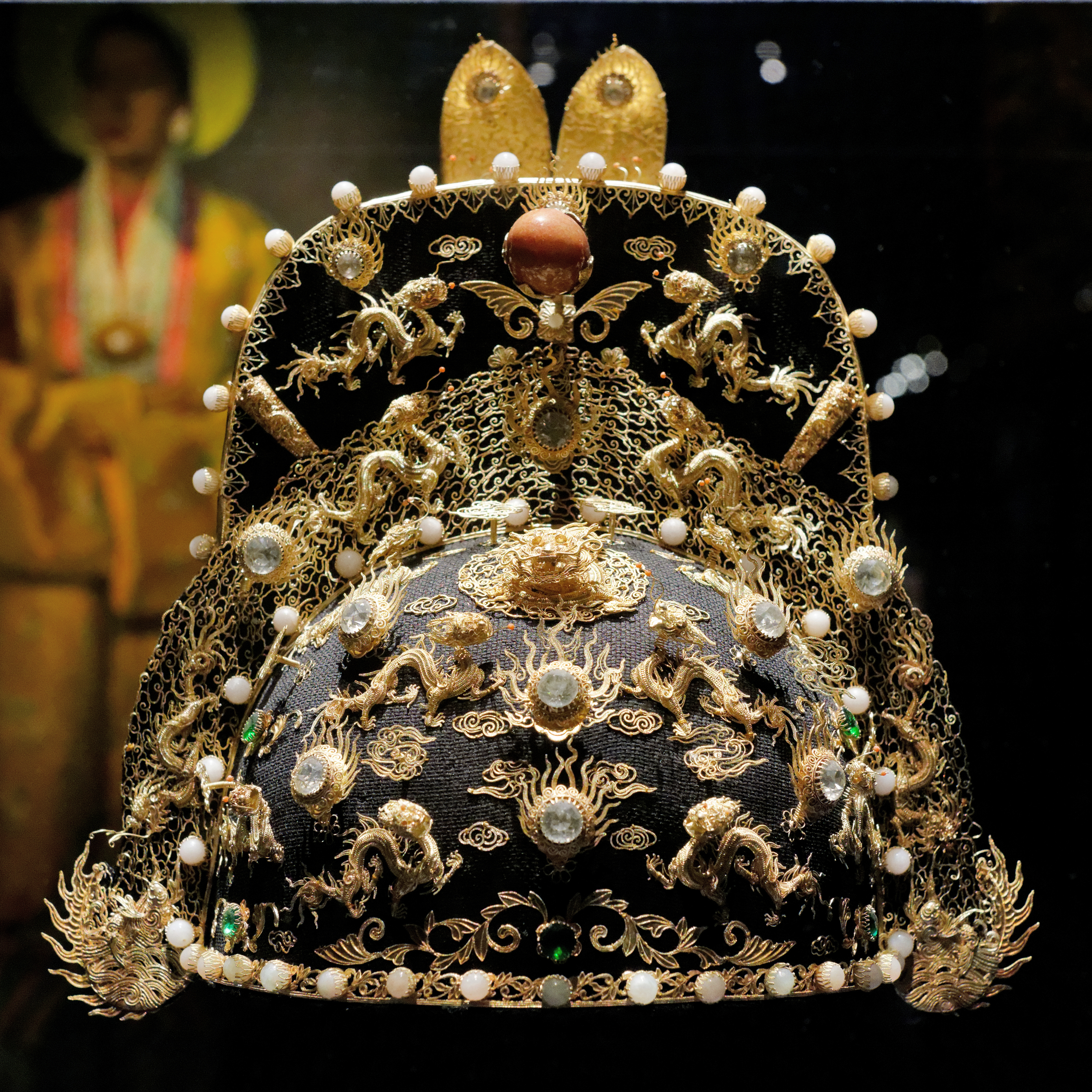 Imperial head-gear.